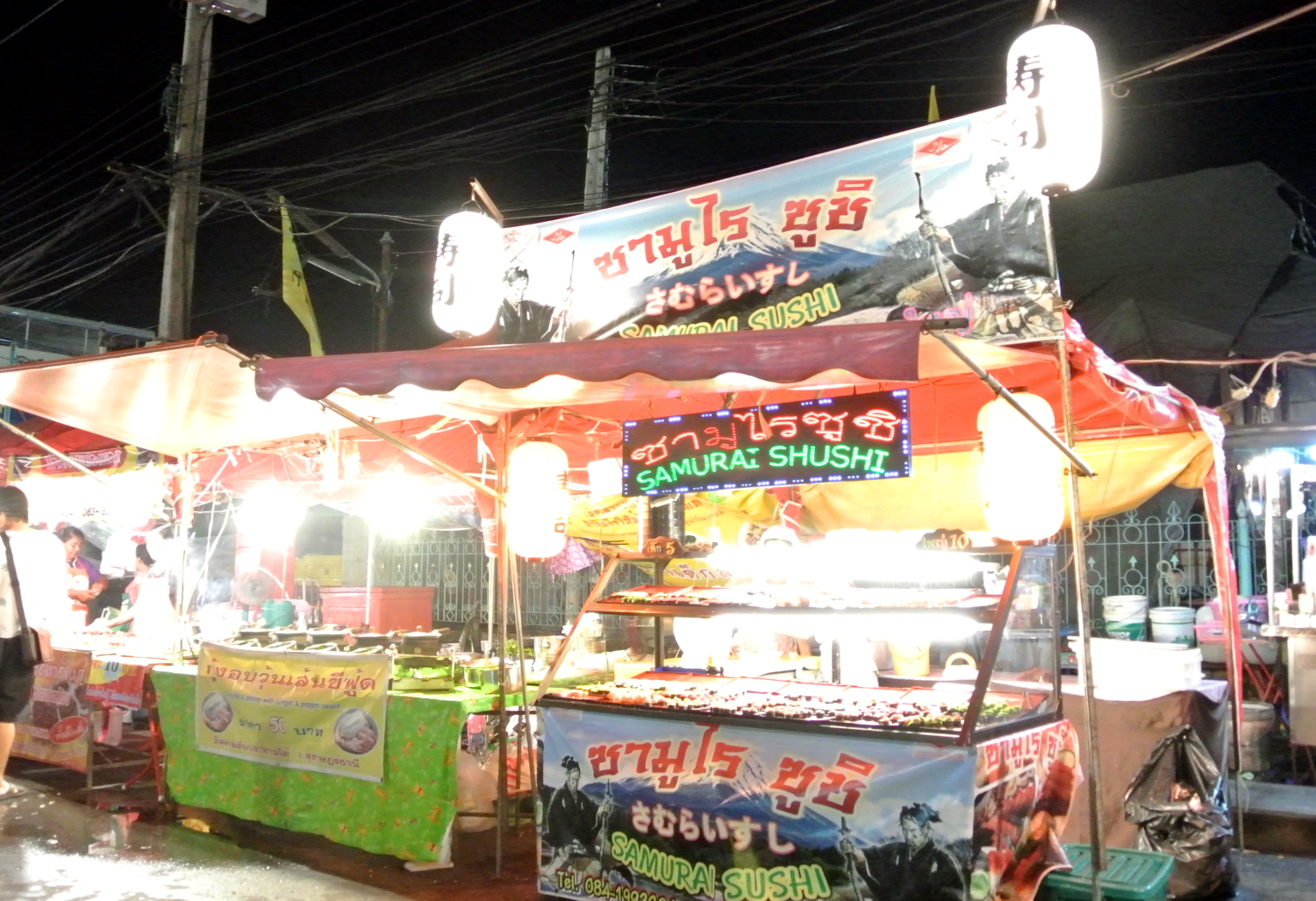 Sushi stand at night-hawers in Hat-Yai Thailand.